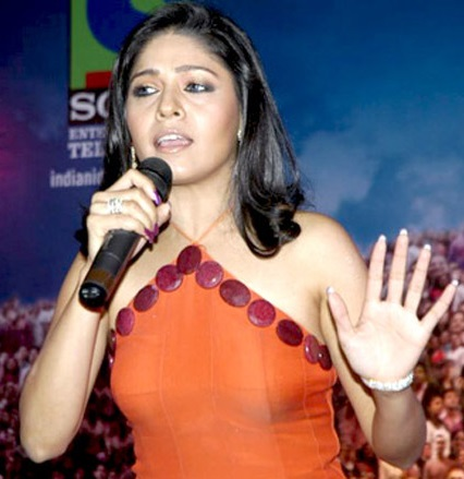 Sunidhi and Salim Merchant promote Indian Idol 5 at Inorbit Mall